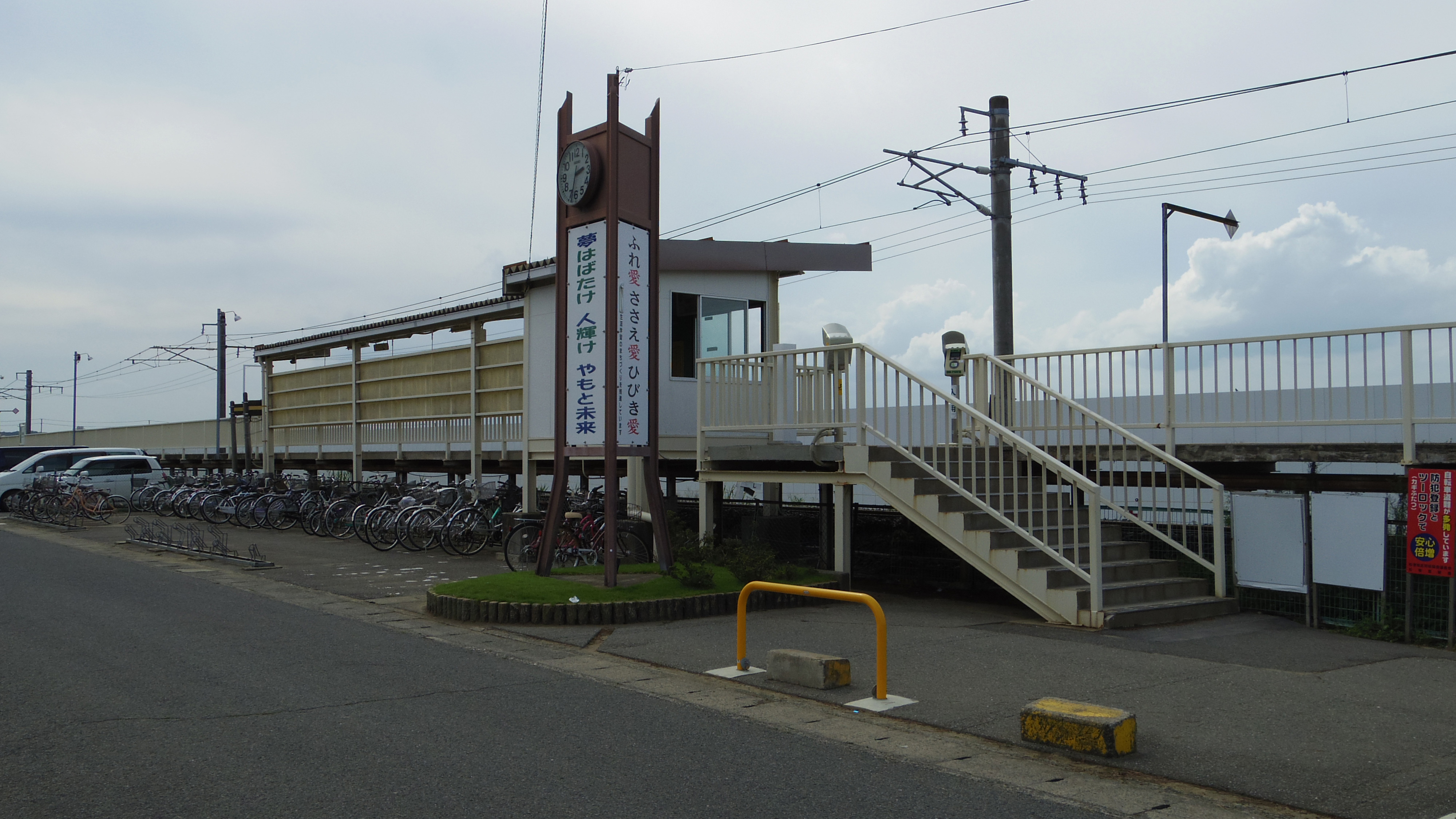 The entrance to Higashi-Yamoto Station on the Senseki Line in Higashi-Matsushima city, Miyagi Prefecture, Japan